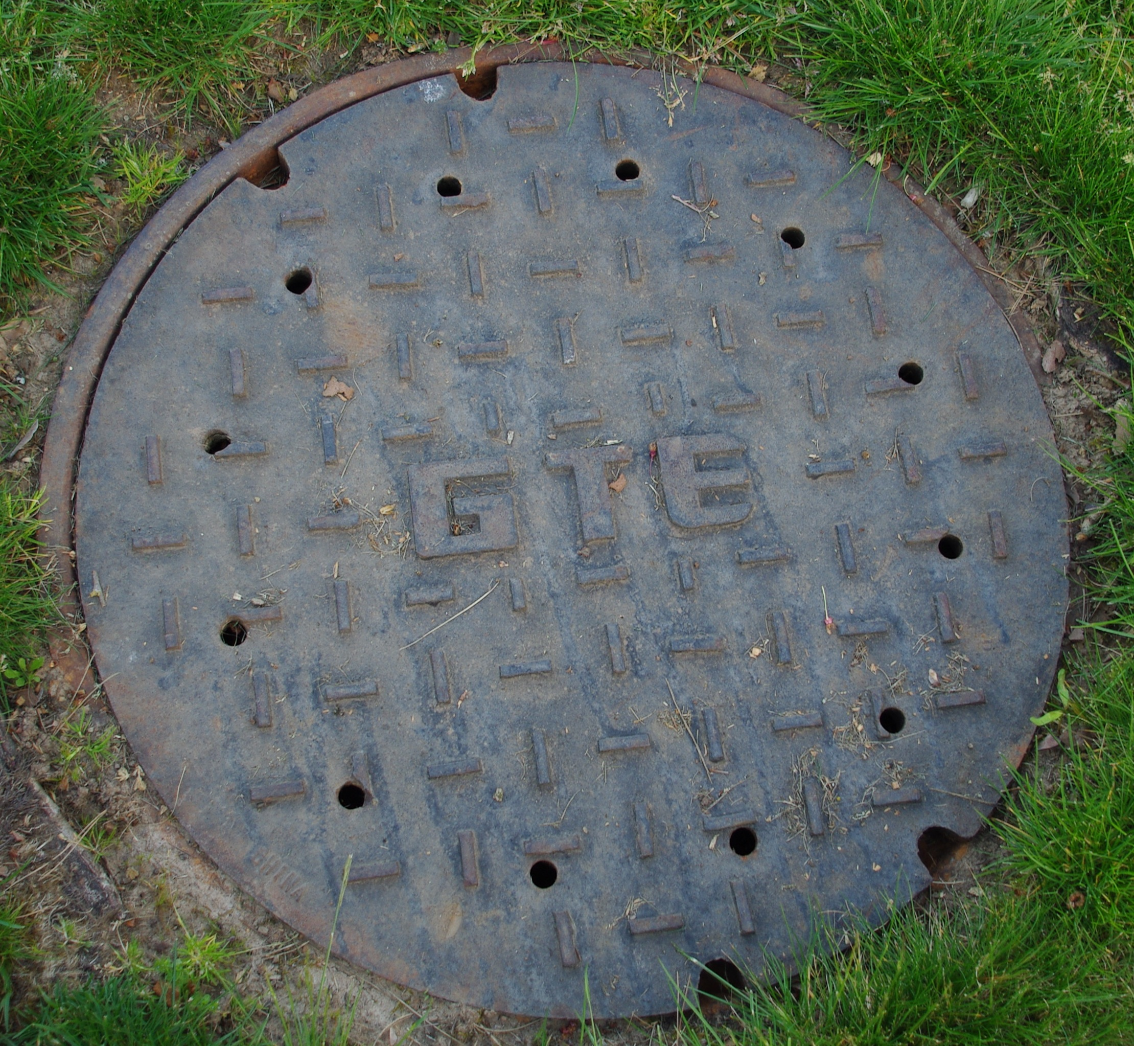 A GTE manhole cover off SW 229th Avenue near Alexander in Hillsboro, Oregon